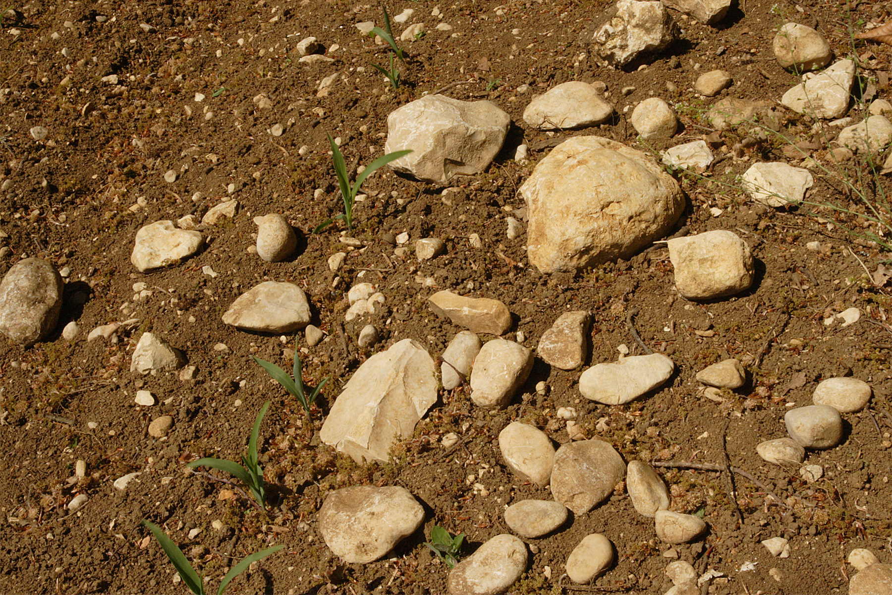 „Bising“, an area near Oberwilzingen Swabian Alb. A rest of cobbels of “Jüngere Juranagelfluh” are dispersed here. These are rests of a Miocene river, probably of the Große Lauter. A layer of this sediment is marked as “Juranagelfluh” in the actual geological map 1:50 000 for this area on the Swabian Alb. This is an important marker for Juranagelfluh of a river, coming from the north. The sedimentation is associated with the alpine “Obere Süßwassermolasse” (Upper Freshwater Molasse). Jüngere Juranagelfluh is also documented by debris found in the pipe of the volcano “Hungersberg”, Münsingen, which was active in Miocene. This former river pored its water into the predanubian “Graupensandrinne”, forming a alluvial fan.